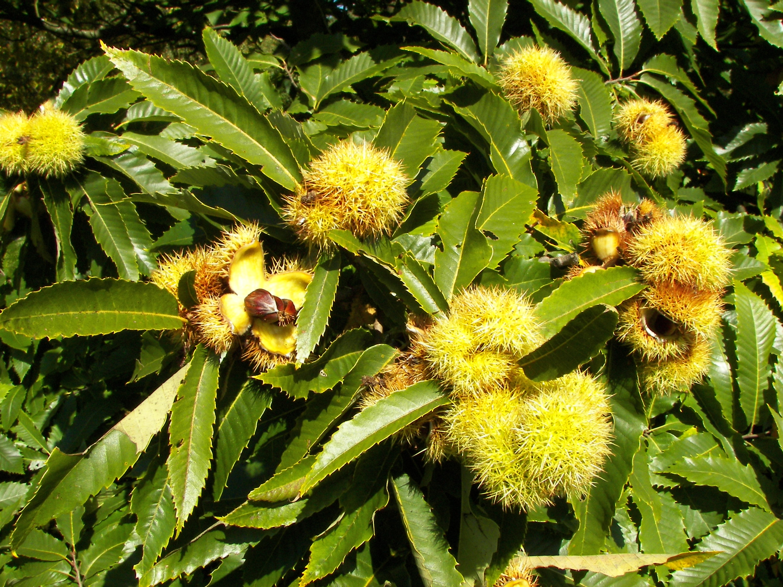 Sweet Chestnut (Castanea sativa) in the New Botanical Garden Marburg, Hesse, Germany